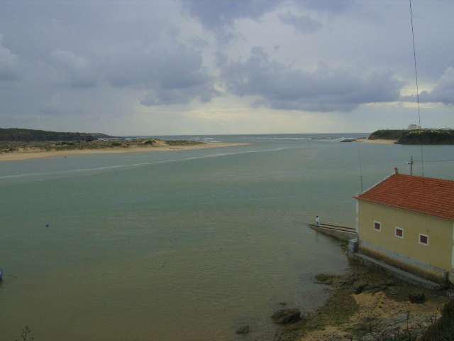 Vila Nova de Milfontes, parish in the Odemira municipality, Alentejo, Portugal. Estuary from the Mira river into the Atlantic Ocean.